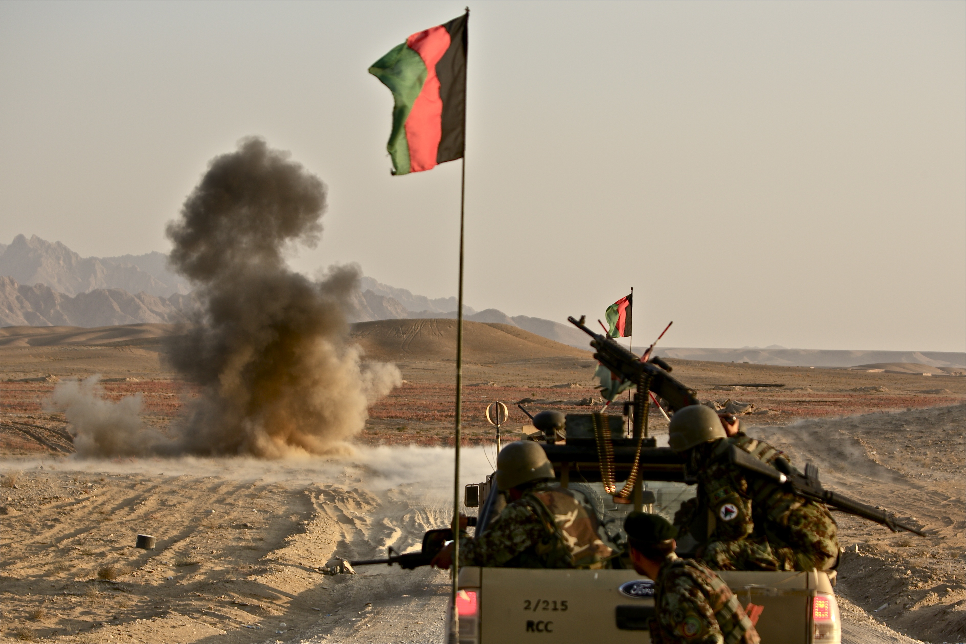 The bomb disposal team of the Afghan Army 215 Corps neutralizes an IED in Sangin, Helmand. With roadside bombs the largest threat in Afghanistan, the few teams that have been trained are being relied heavily on to keep the roads safe for troops and civilians.